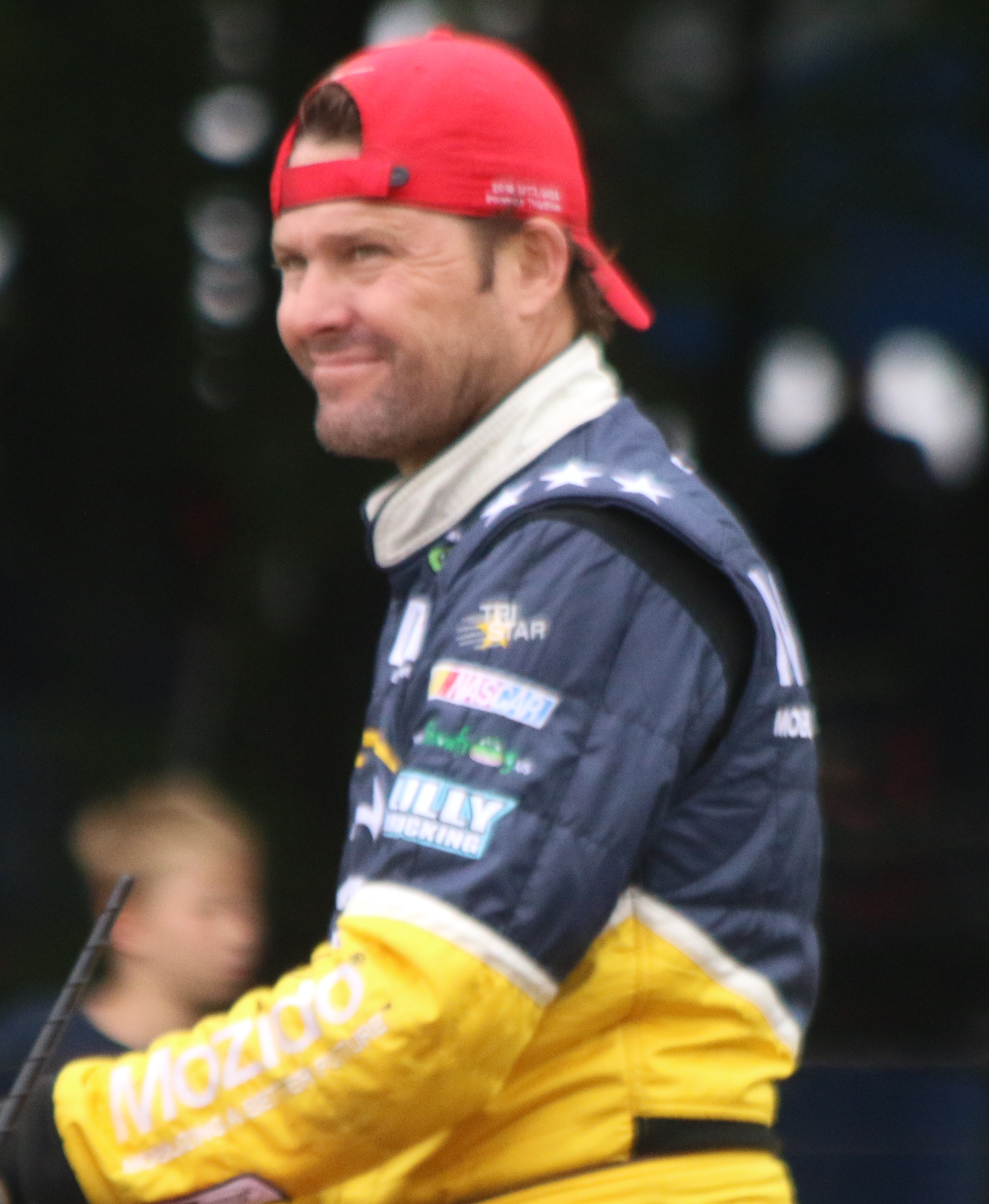 NASCAR driver Stanton Barrett at the Road America 180.